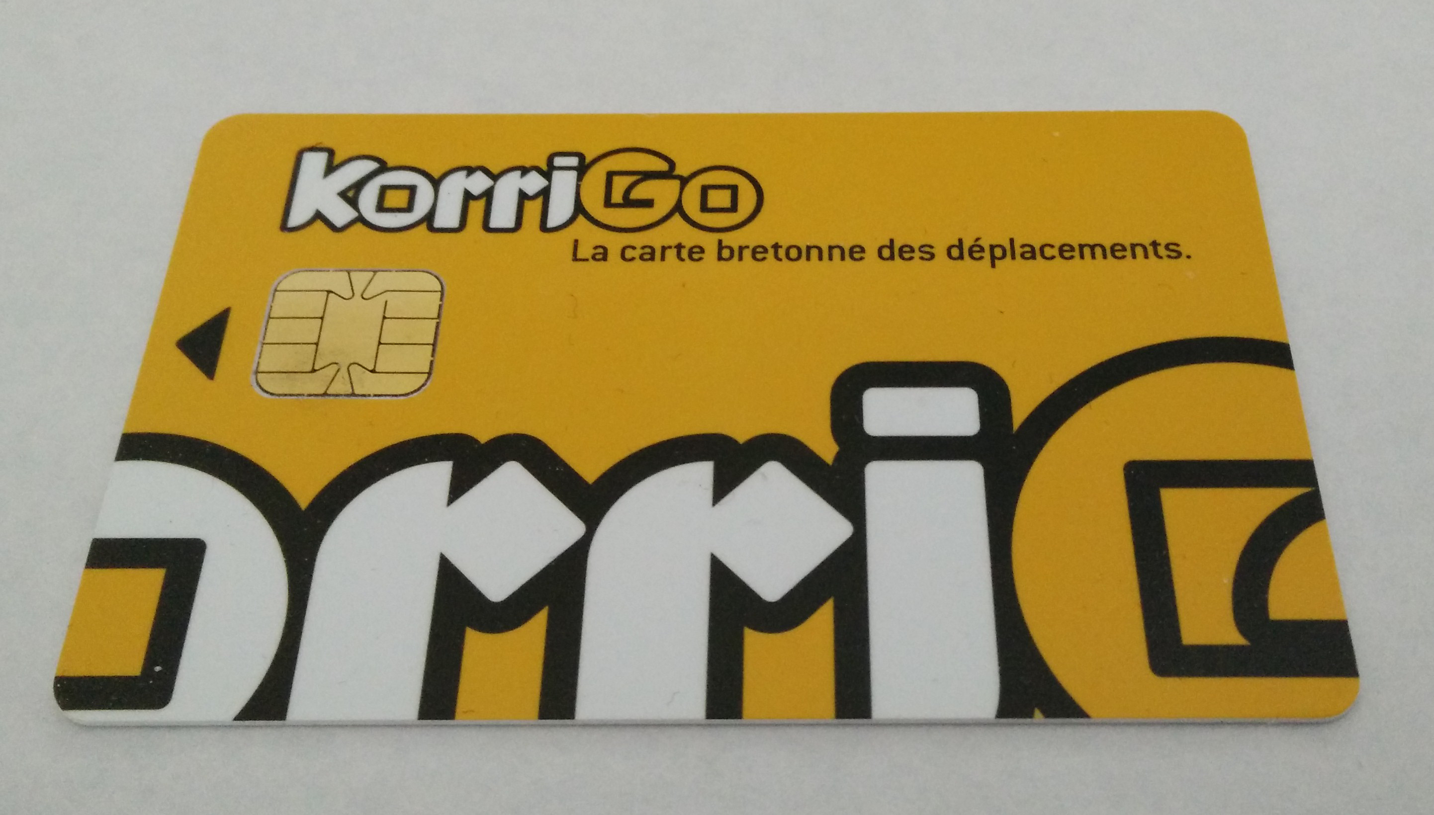 Korrigo card used in public transport in Brittany (France)